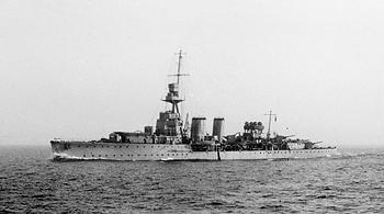 British light cruiser HMS CURLEW.